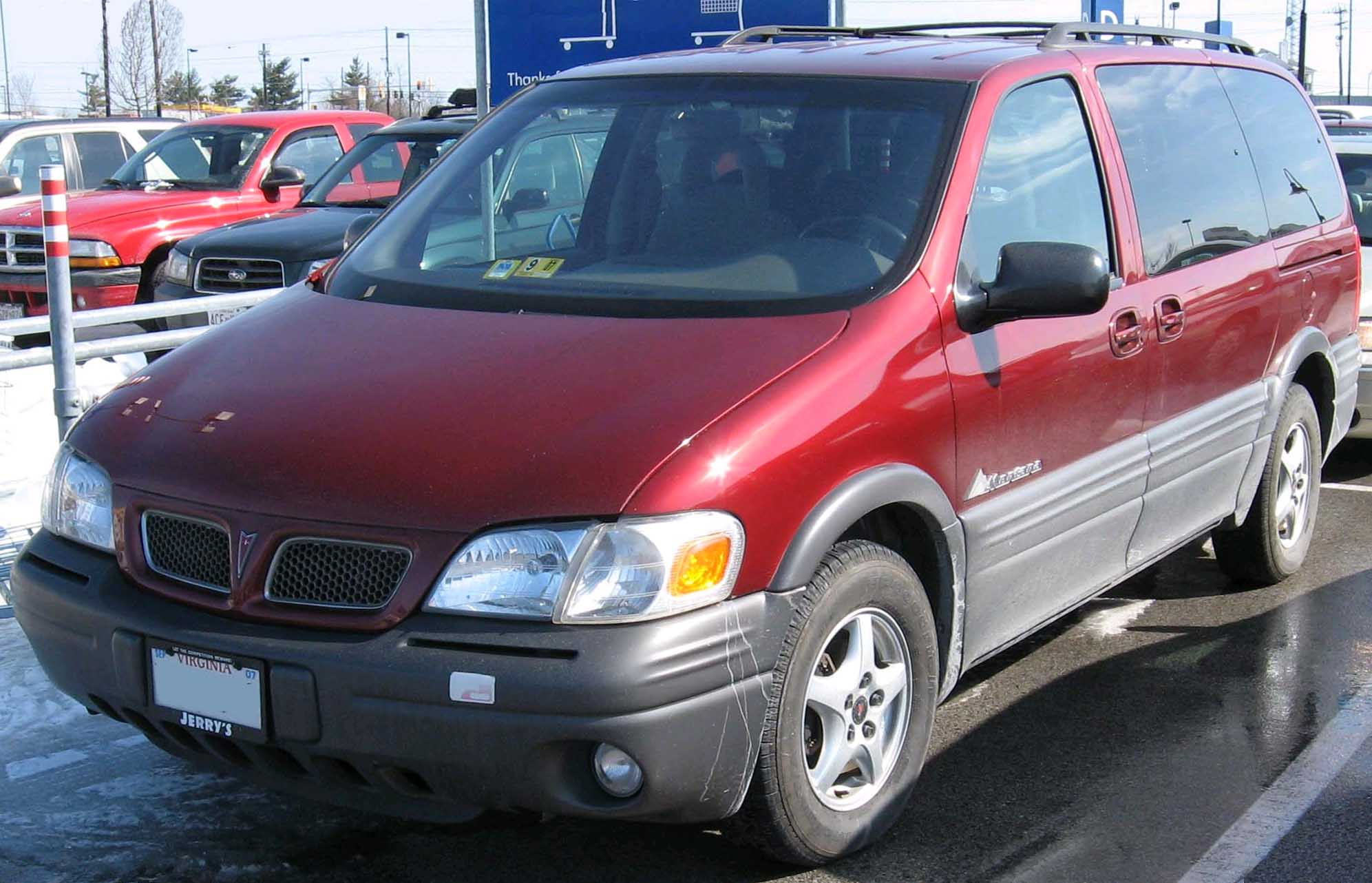 1999-2001 Pontiac Montana photographed in College Park, Maryland, USA.